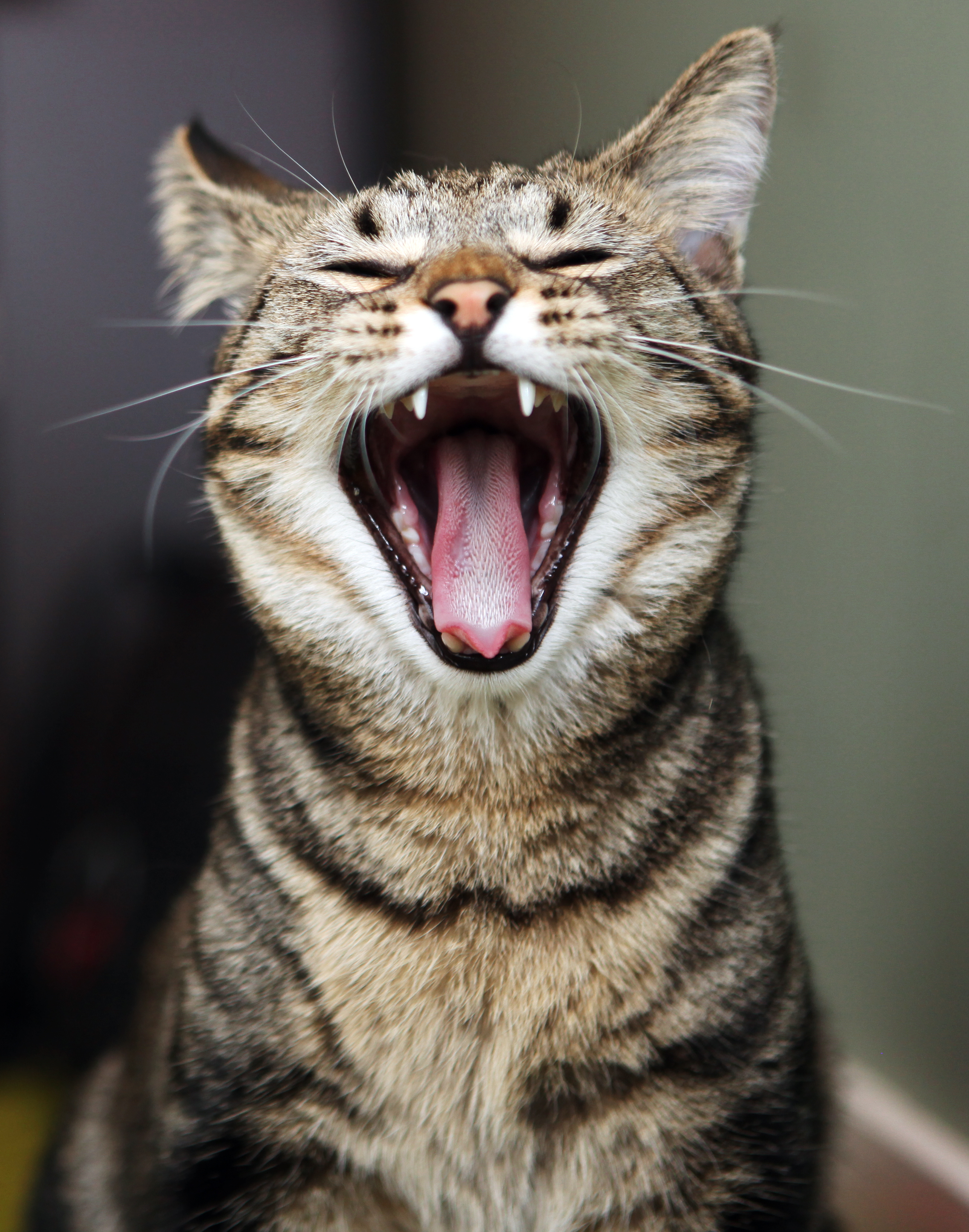 Close-up view of a cat yawning.